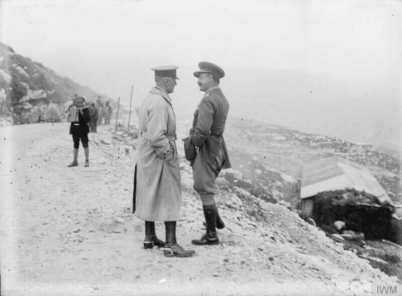 IWM caption : "THE BRITISH ARMY ON THE ITALIAN FRONT, 1917-1918. Major-General Thomas Herbert Shoubridge, the Commander of the 7th Division (right), in conversation with another British General".